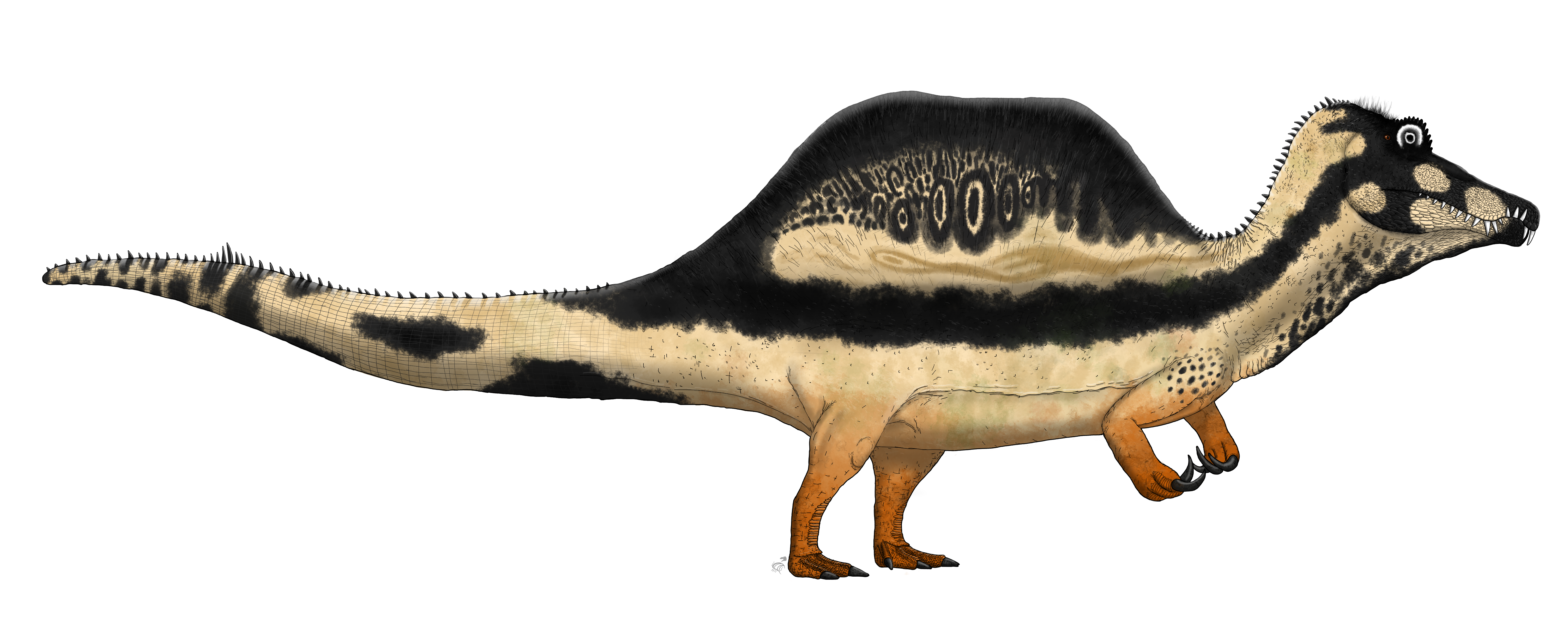 A speculative life restoration of the spinosaurid theropod dinosaur Oxalaia quilombensis, based mostly on Ibrahim et al. (2014)'s description of Spinosaurus[1] with the shape of the snout modeled after Kellner et al (2011).[2] .